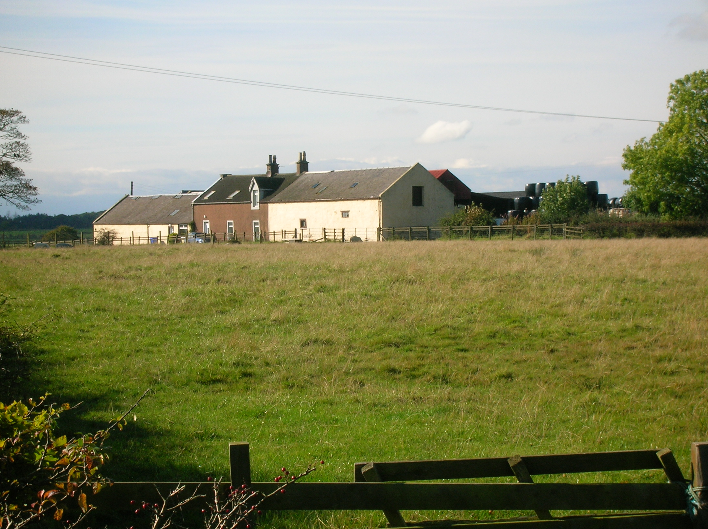 Crossgates farm, North Ayrshire, Scotland. Roger Griffith. 2007.